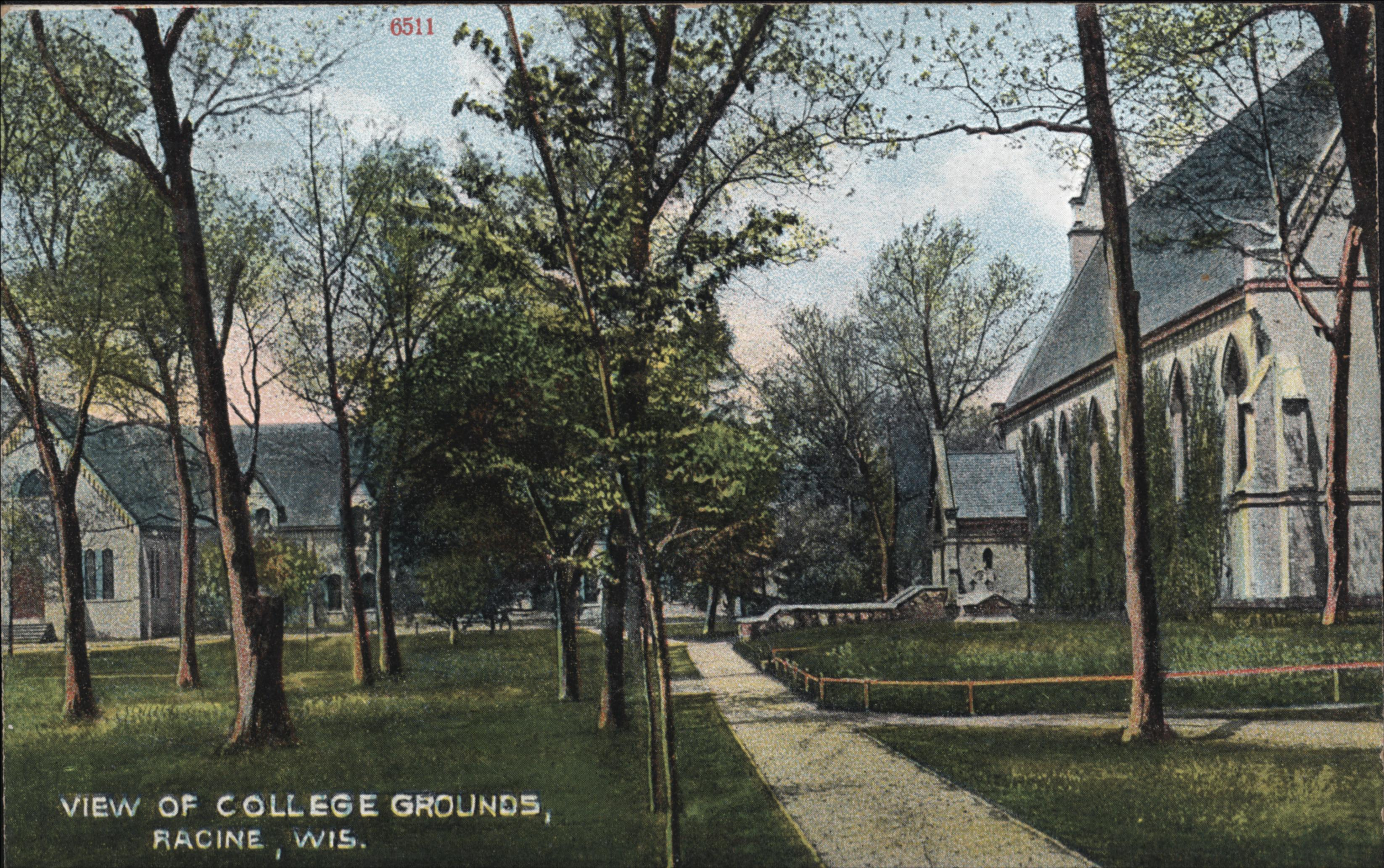 This is a view of the grounds of Racine College in 1910. The viewer is facing west, looking past the chapel on the right.